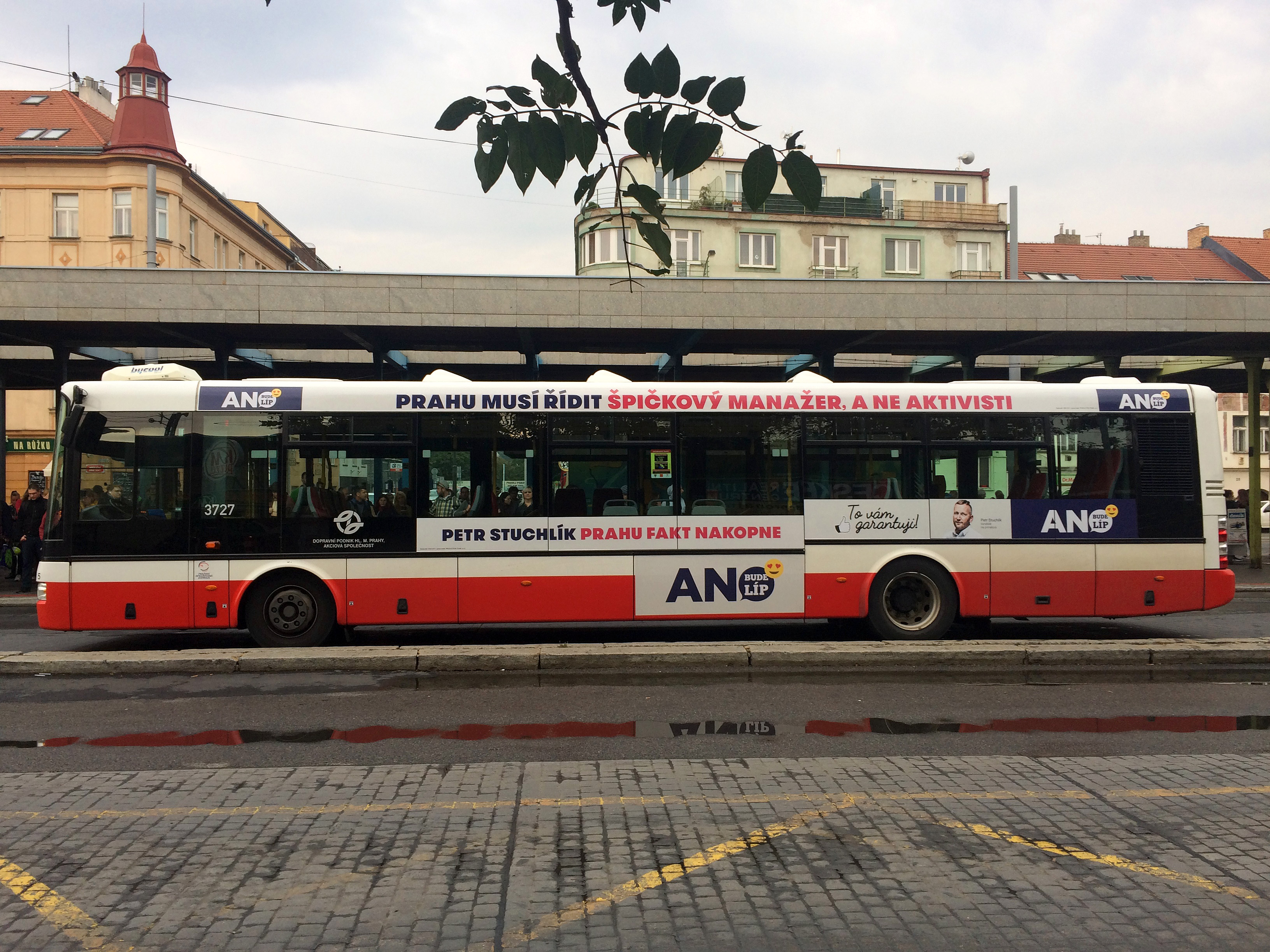 Mayoral candidate for ANO in Prague, Czech Republic. The main slogan proclaimes: “Prague must be led by a top manager, not by activists”